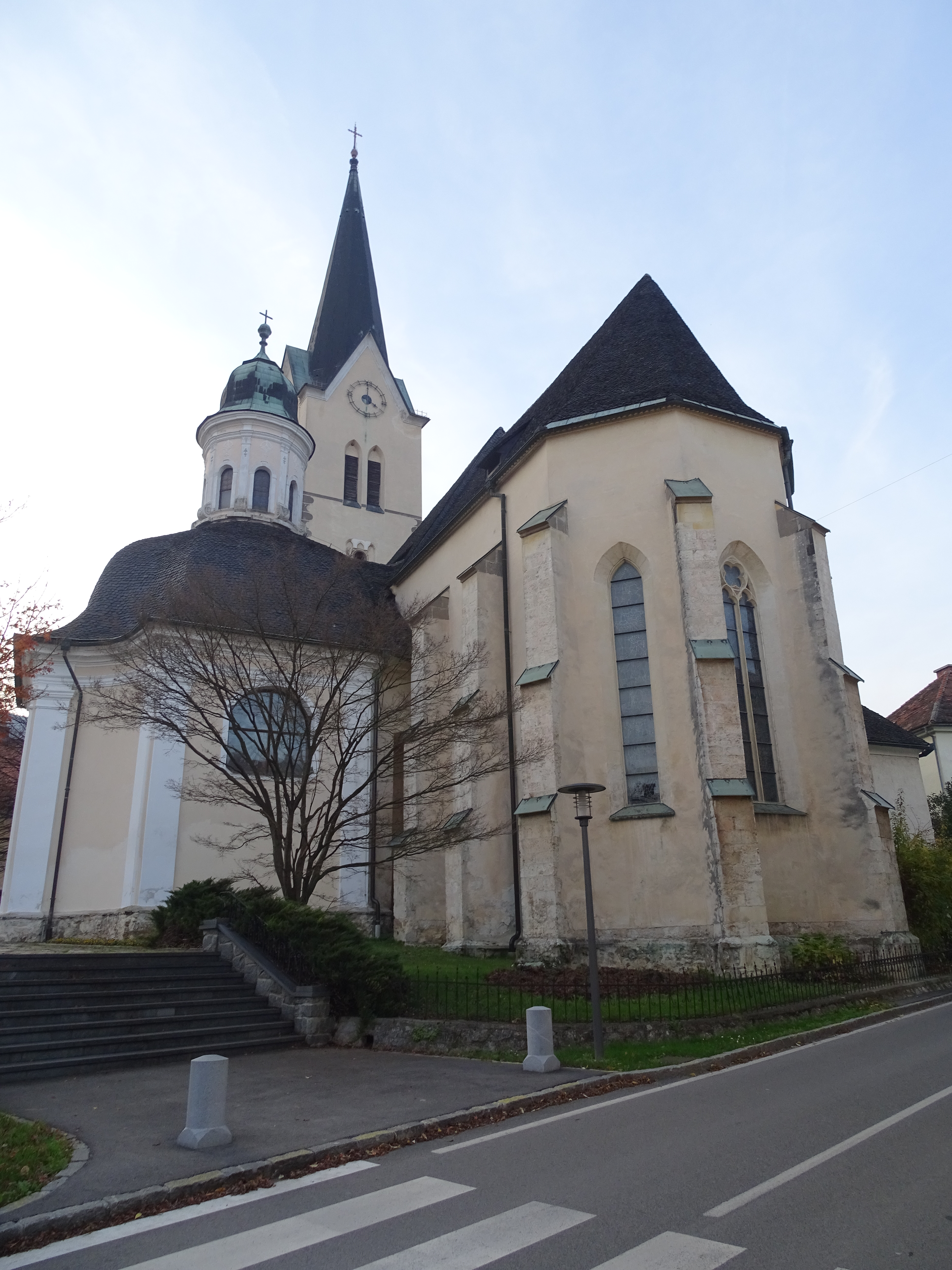 st. Georg archparish church, Slovenske Konjice, Slovenia